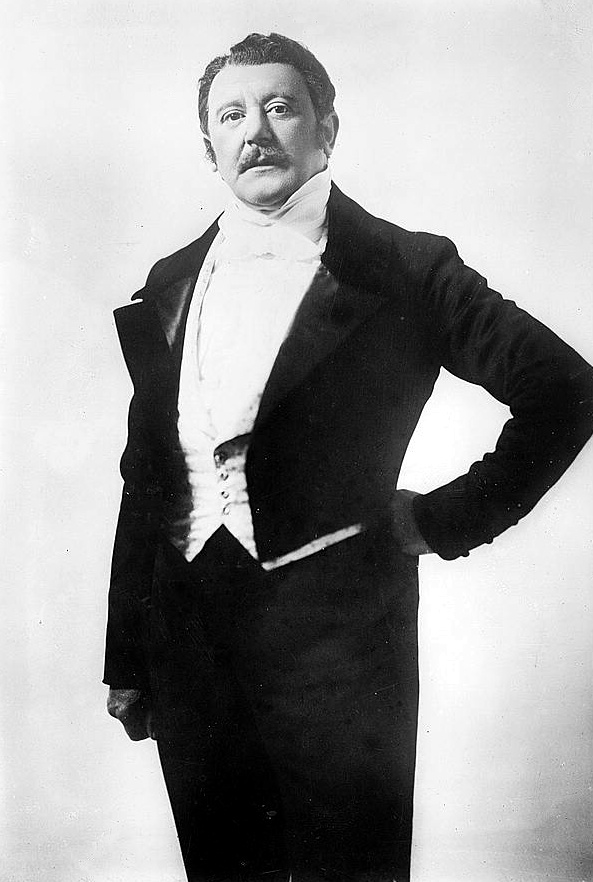 "Chas. Hawtrey" An undated image, from the Bain News Service, of Charles Hawtrey, a stage actor.